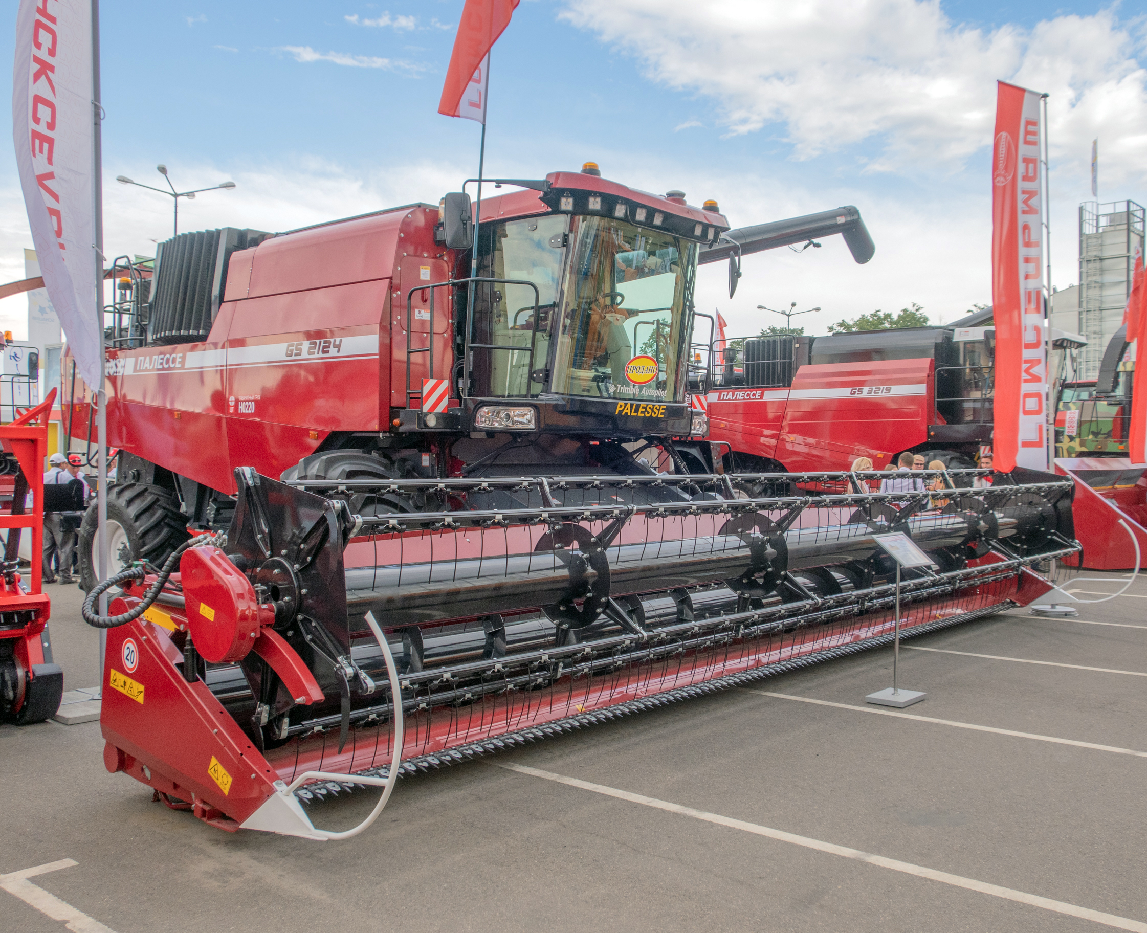 Grain combine harvester Palesse GS 2124 by Gomselmash factory. Photo taken at Belagro-2019 exhibition (Minsk district, Belarus)